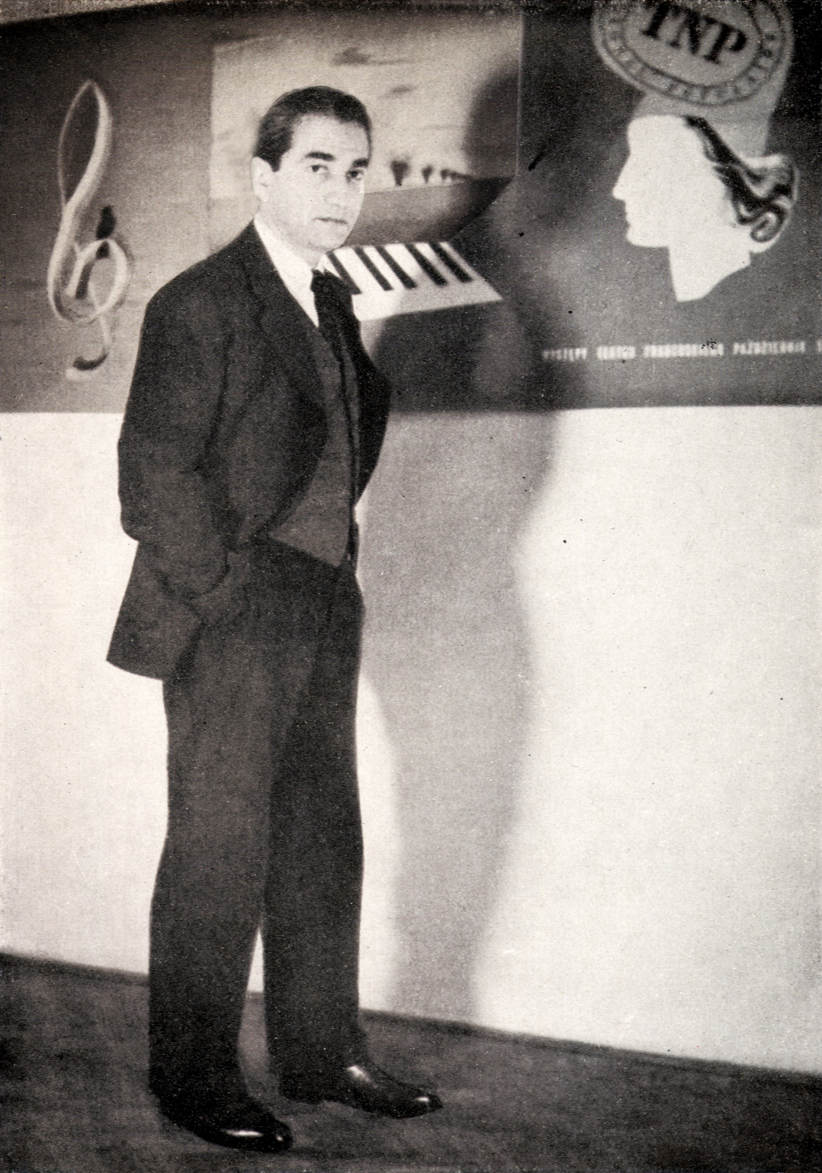 Tadeusz Trepkowski, Polish poster designer